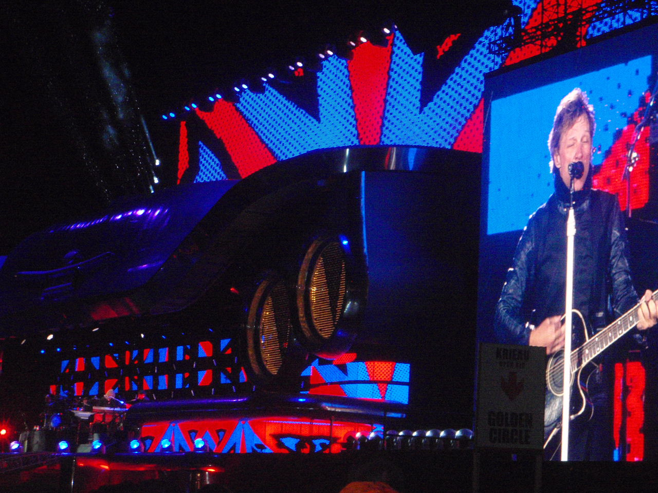 Bon Jovi Wien 17_05 2013